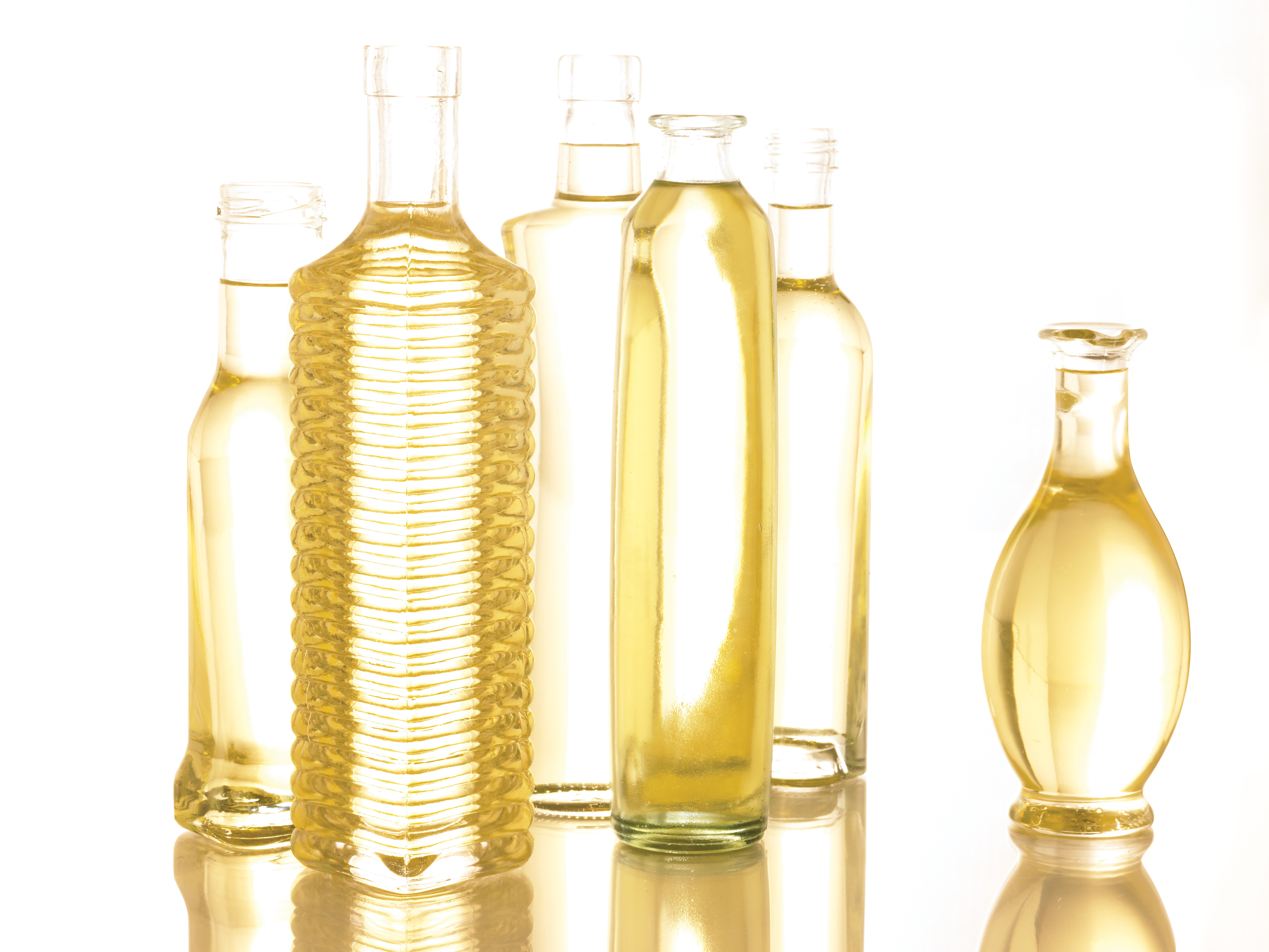 If used, credit must be given to the United Soybean Board or the Soybean Checkoff.